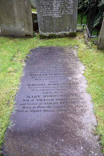 St Oswald, Grasmere, Cumbria - Gravestones